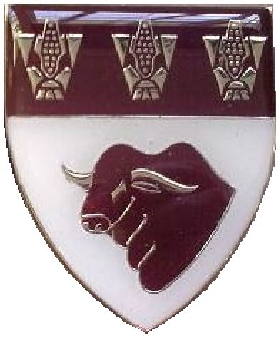 SADF era Hoopstad Commando emblem